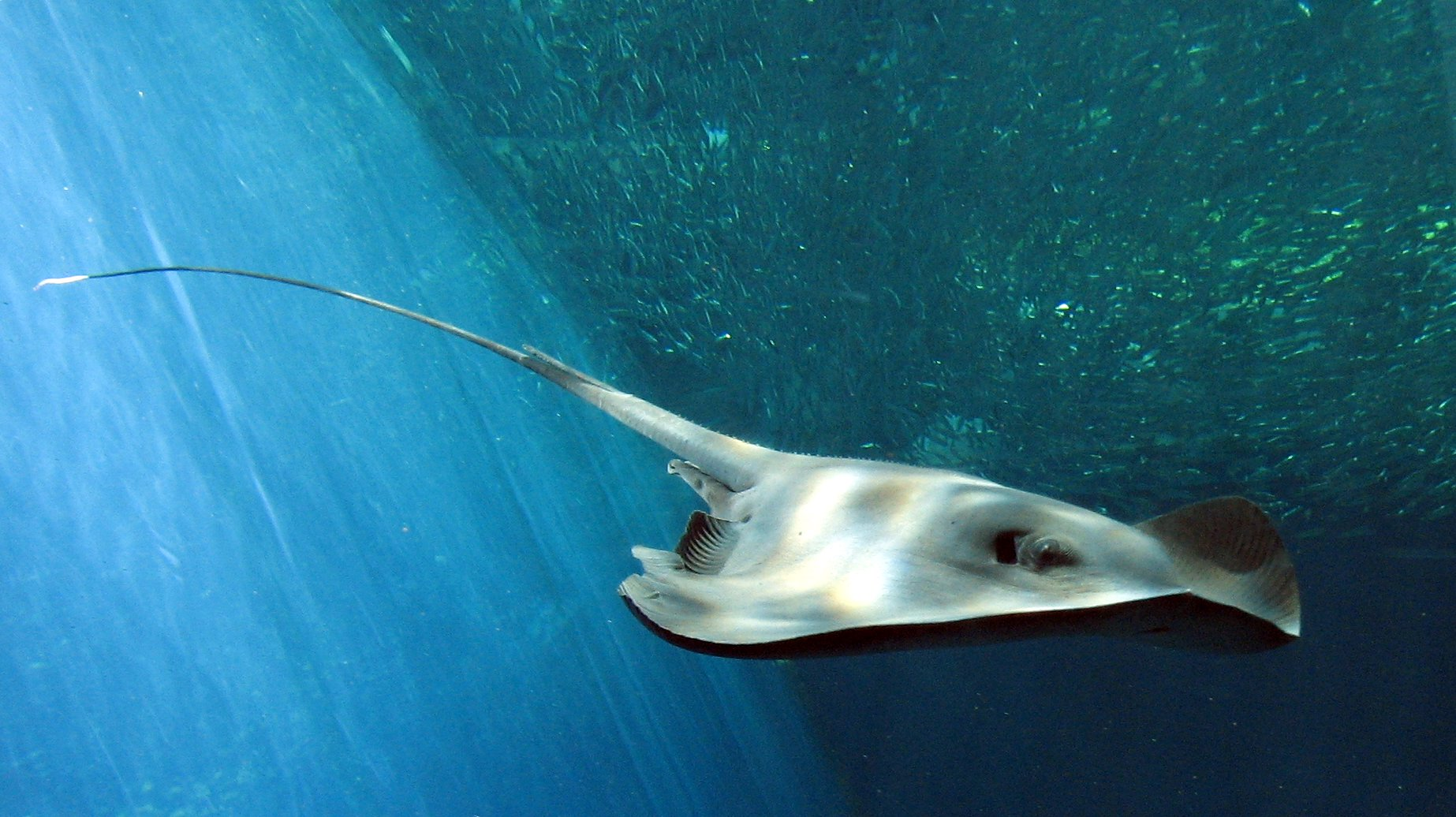 Pelagic stingray (Pteroplatytrygon violacea) at the Fukushima Aquarium.